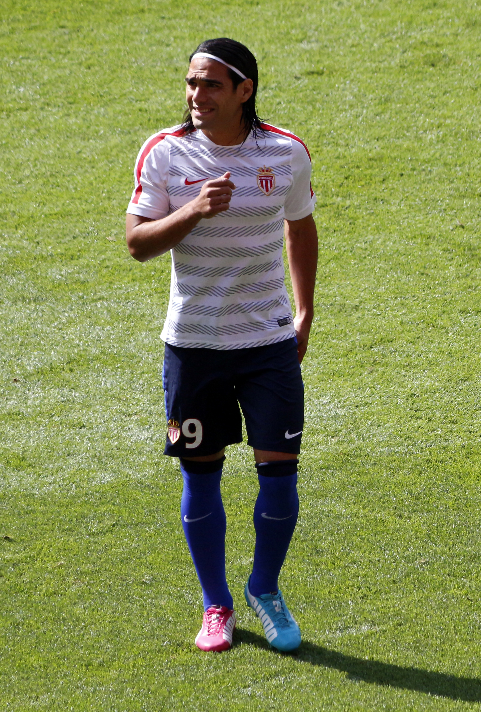 Radamel Falcao warming up for AS Monaco during the 2014 Emirates Cup.